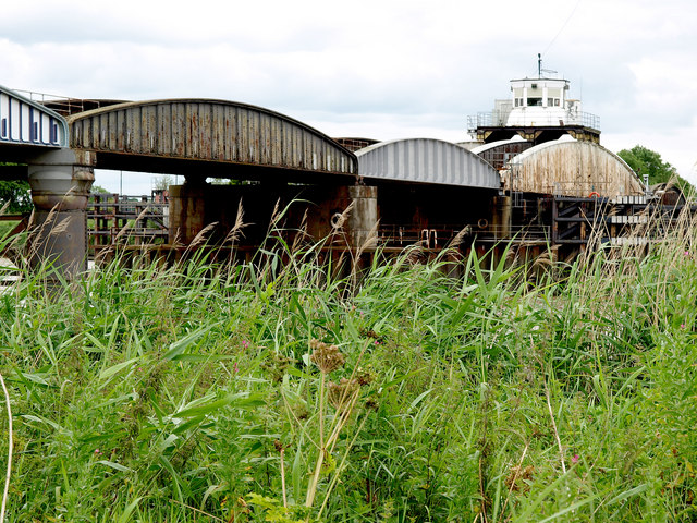 The Railway Bridge over the River Ouse, from Goole, East Riding of Yorkshire, England.